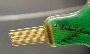 Photo by Steve M. Potter chronic multi-wire probe